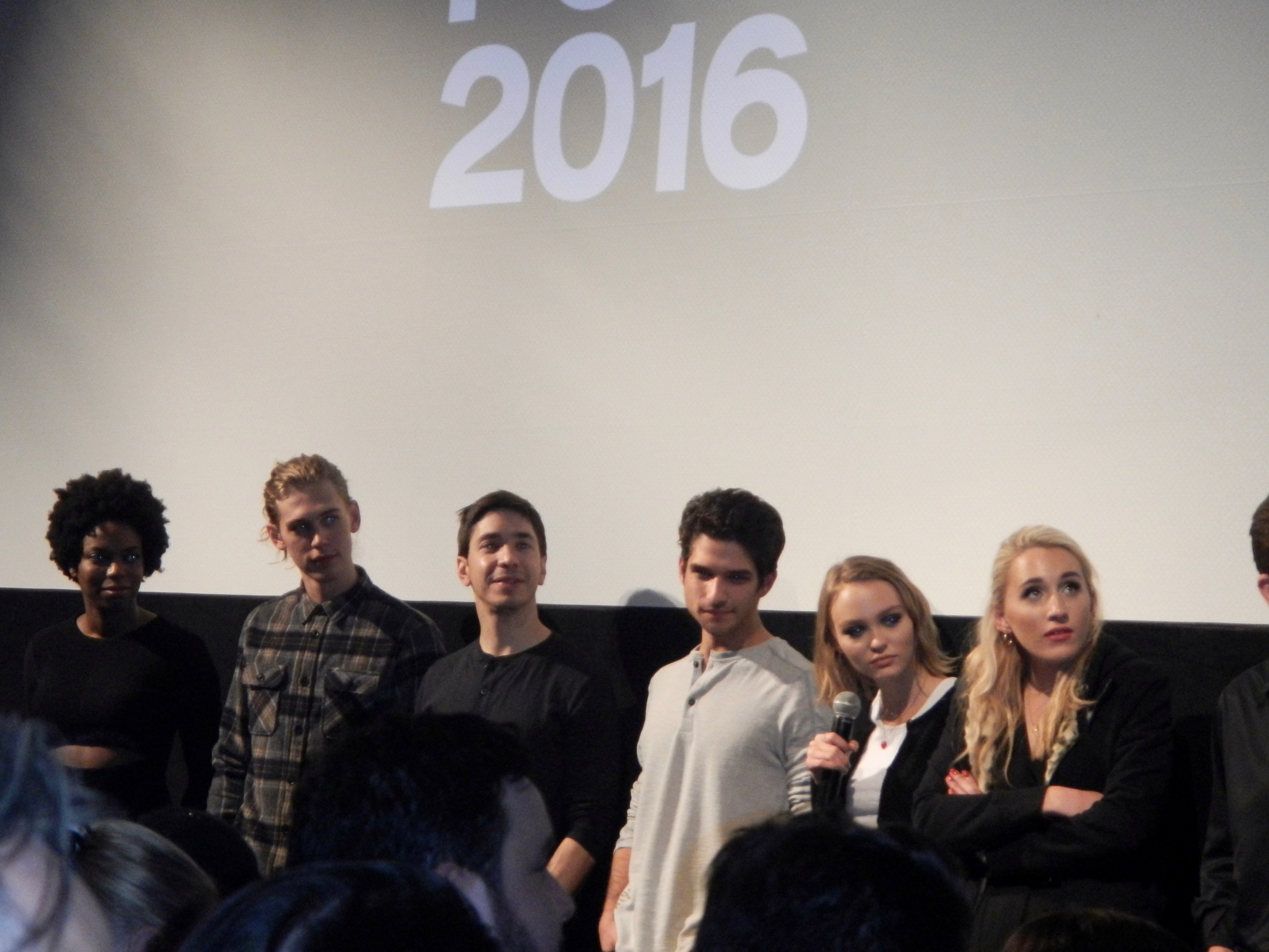 Sundance 2016, Park City UT